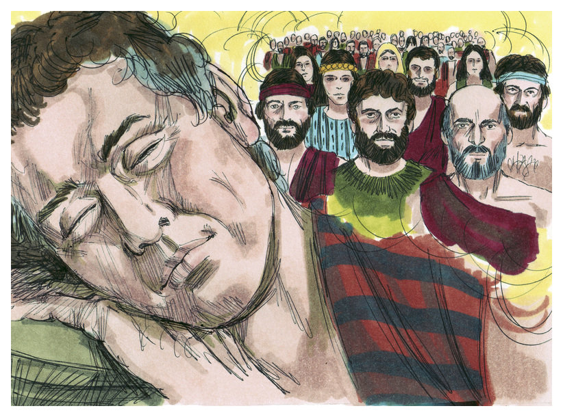 Biblical illustration of Book of Genesis Chapter 28